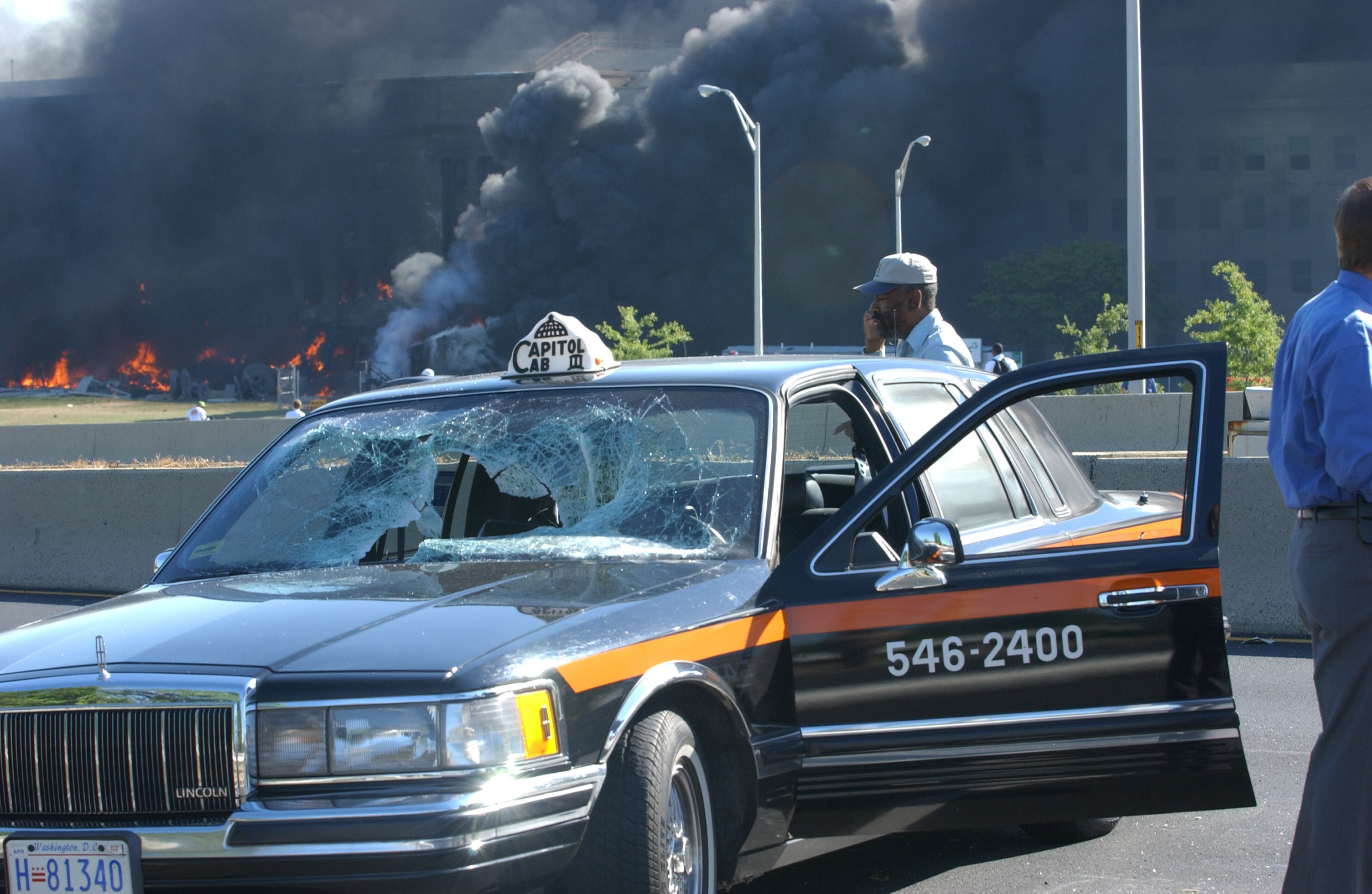 The Pentagon in flames (background) moments after a hijacked jetliner crashed into building at approximately 0930 on Sept. 11, 2001. (U.S. Marine Corps photo by Cpl. Jason Ingersoll) (Released)